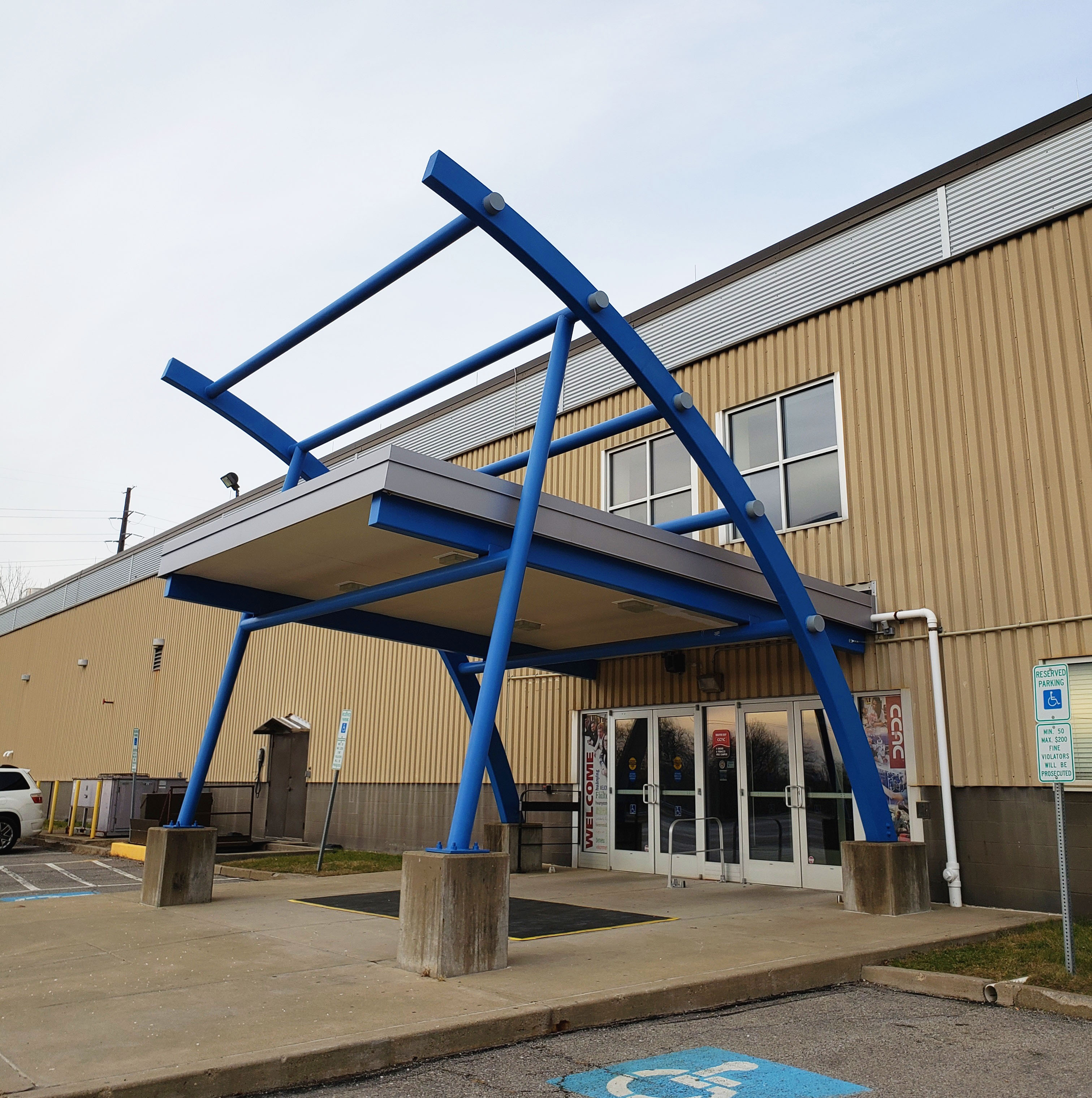 Main entrance to the West Hills Center of the Community College of Allegheny County (CCAC), Oakdale, Pennsylvania, January 2020.